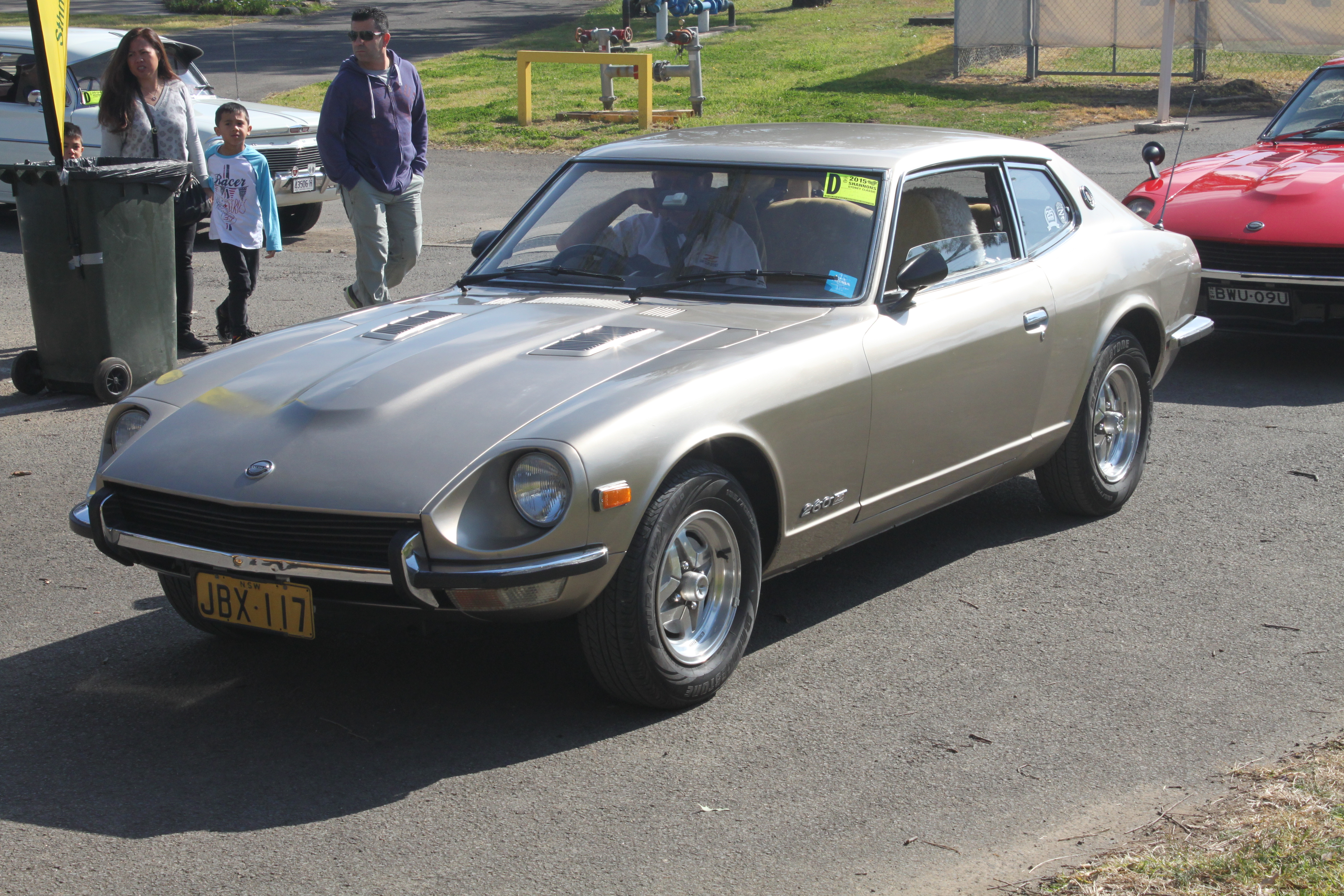 Shannon's Classic, Eastern Creek, NSW August 2015